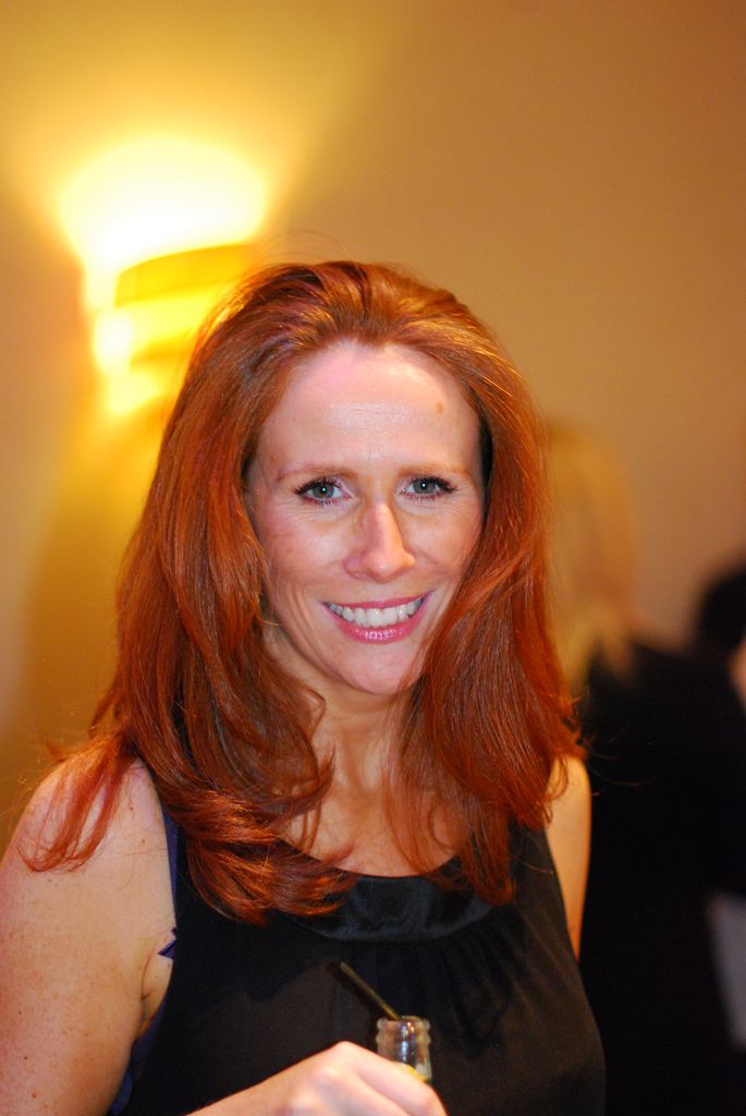 Catherine Tate, photographed at Jo Glover charity event 2010